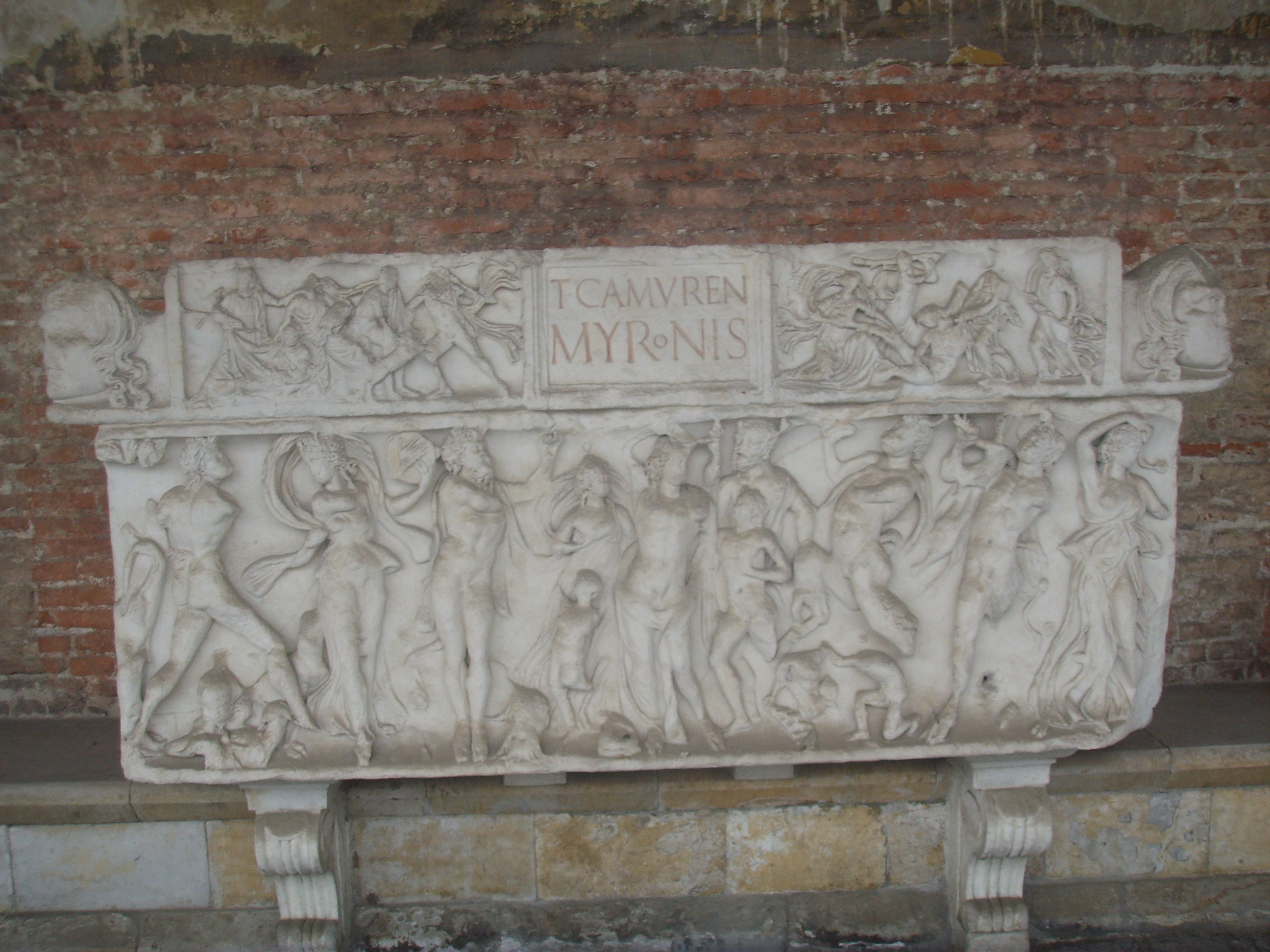 Camposanto Monumentale (monumental graveyard). Roman age sarcophagus. Above: the Orpheus myth. Below: Bacchic scene. T(iti) CAMVREN(i)/ MyRONIS